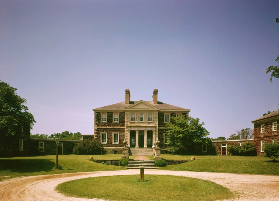 Mount Airy, State Route 646 vicinity, Warsaw vicinity, Richmond, VA. NORTHEAST FACADE. (Color corrected)